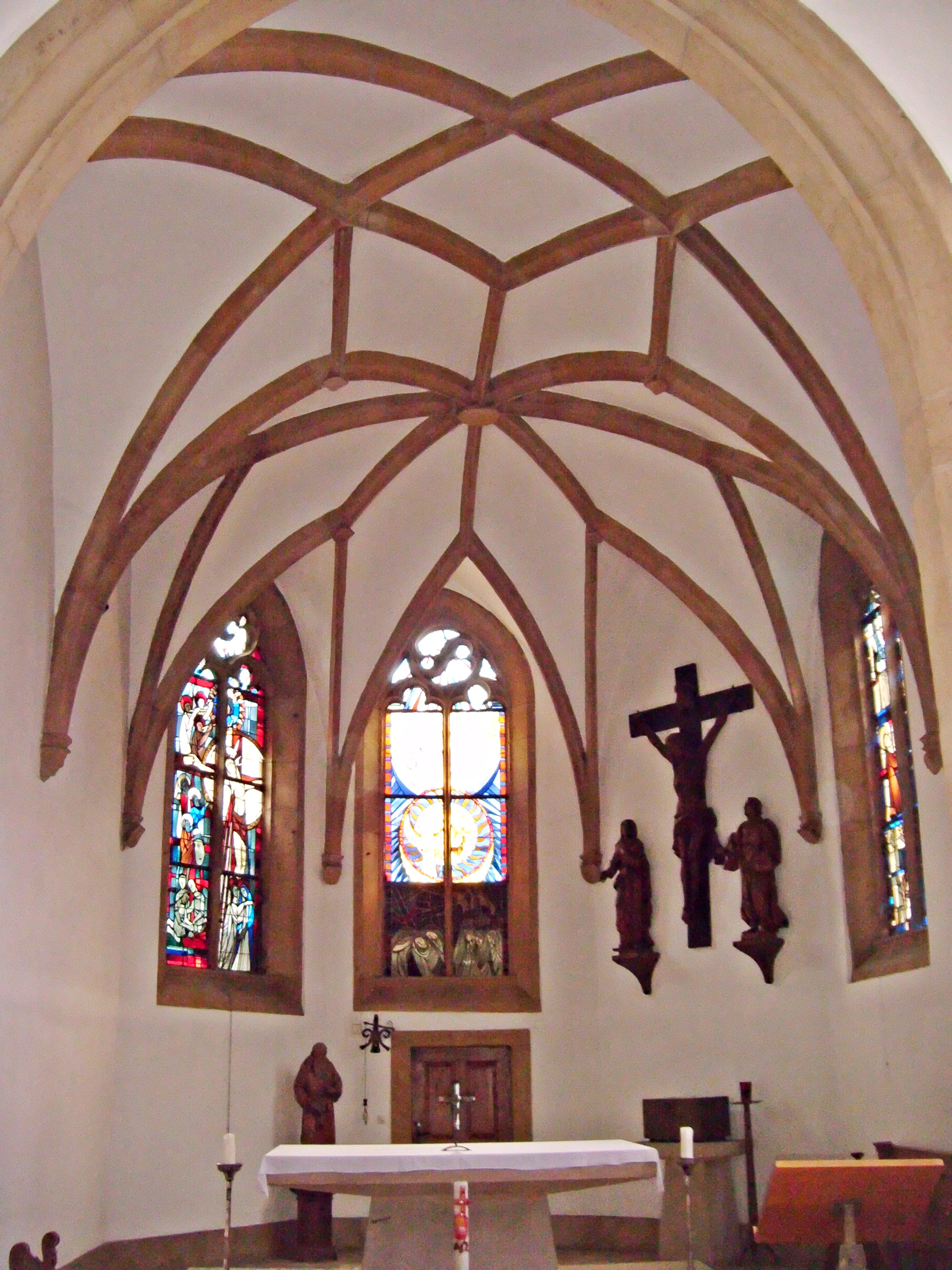 Deidesheim Spitalkapelle innen